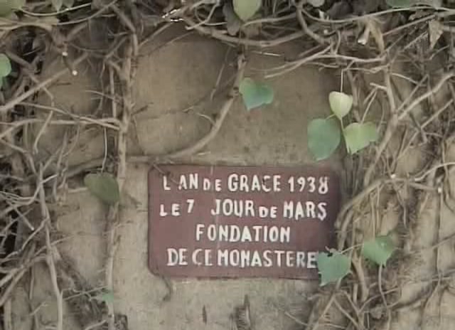 The Tibhirine Monastery's founding date (March 7, 1938)